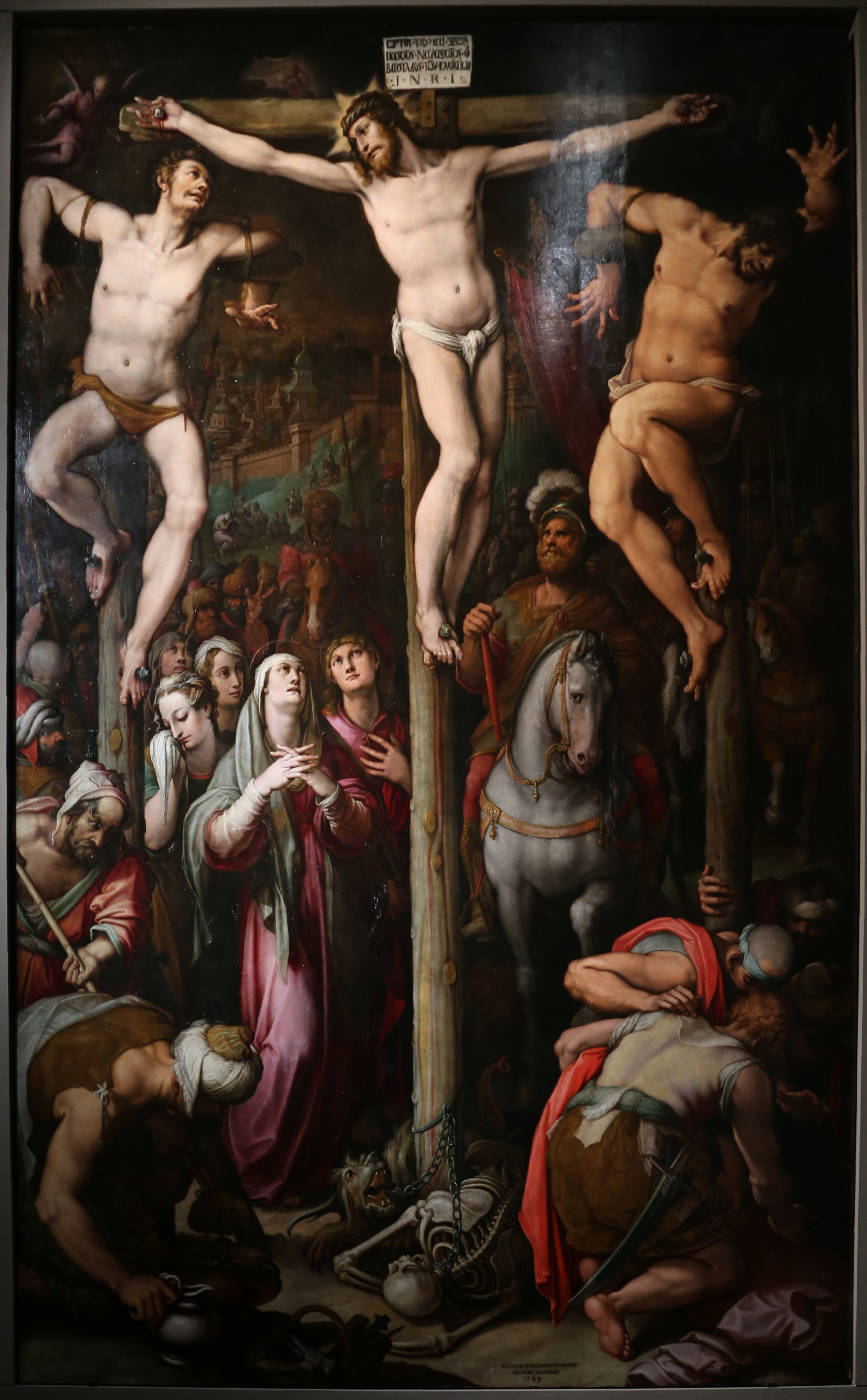 Crucifixion by Stradanus (Florence, Santissima Annunziata)